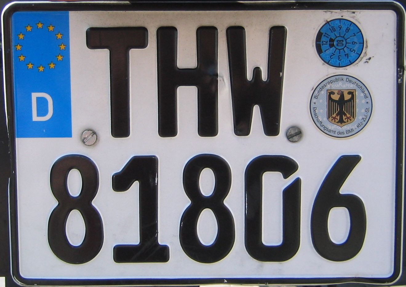 vehicle registration plate for Germans disaster relief organisation (THW)